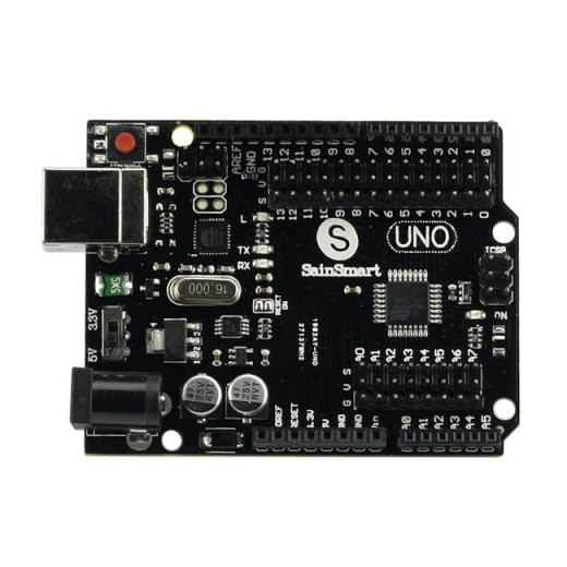 Development Board Compatible With Arduino UNO R3